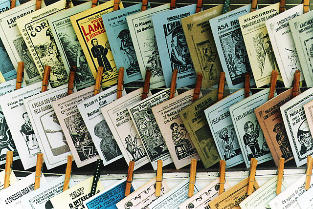 Impressos de literatura de cordel à venda no Rio de Janeiro.